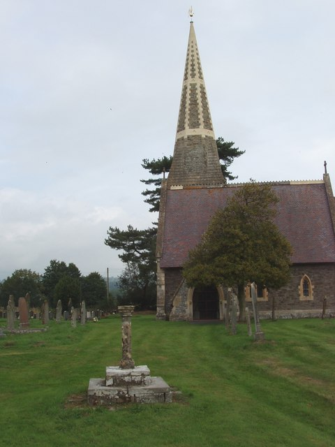 Remains of churchyard cross, Boughrood. In the foreground are the remains of St Cynogs Church, churchyard cross at Boughrood, close to the river Wye.